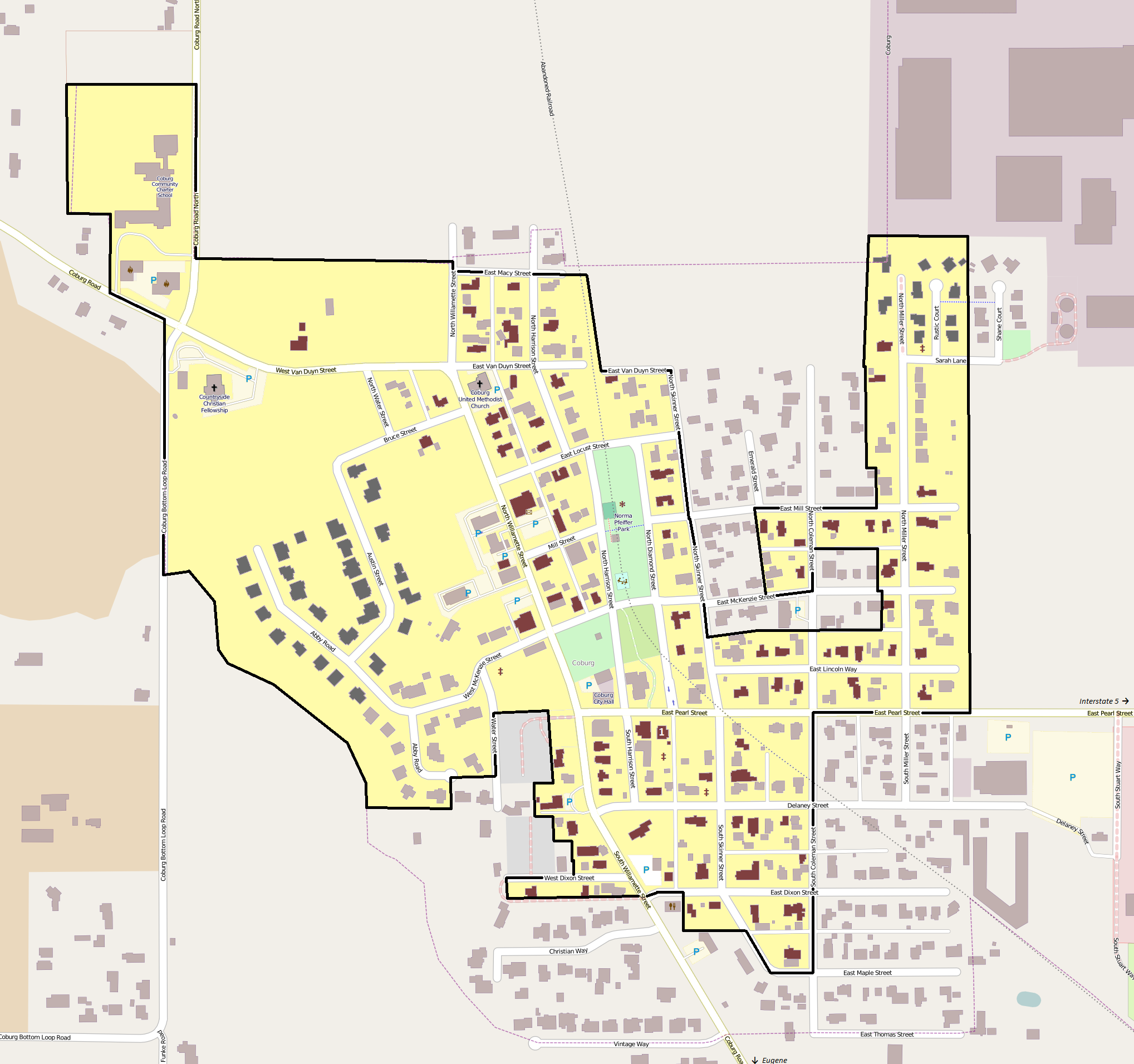 Map showing the boundaries of the Coburg Historic District in Coburg, Oregon, United States. The historic district is listed on the US National Register of Historic Places. Boundary data is derived from the historic district's National Register nomination form. Black boundary/yellow area: Coburg Historic District boundaries. Maroon shading: Buildings listed as contributing resources in the historic district. Maroon asterisk: Contributing resource other than a building. See nomination inventory number 377. Maroon double-daggers: Mark the former locations of buildings that were identified as a contributing features in the historic district at the time of listing on the National Register, but which were demolished before August 24, 2012 (date of Google Earth satellite imagery). See nomination inventory numbers 301, 396, 401, and 461. White numbers: Represent the locations of contributing resources in the historic district that are also listed individually on the National Register: Nelson and Margaret Mathews House Dark gray shading: Buildings constructed subsequent to the nomination that were built on open space or open farmland that the nomination identified as contributing features of the district in their open state.